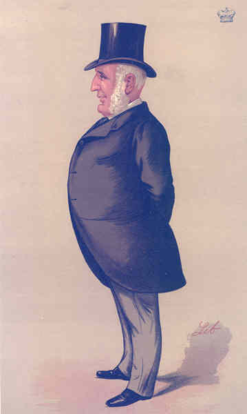 Caricature of Edward Baring, 1st Baron Revelstoke. Caption read "Barings".